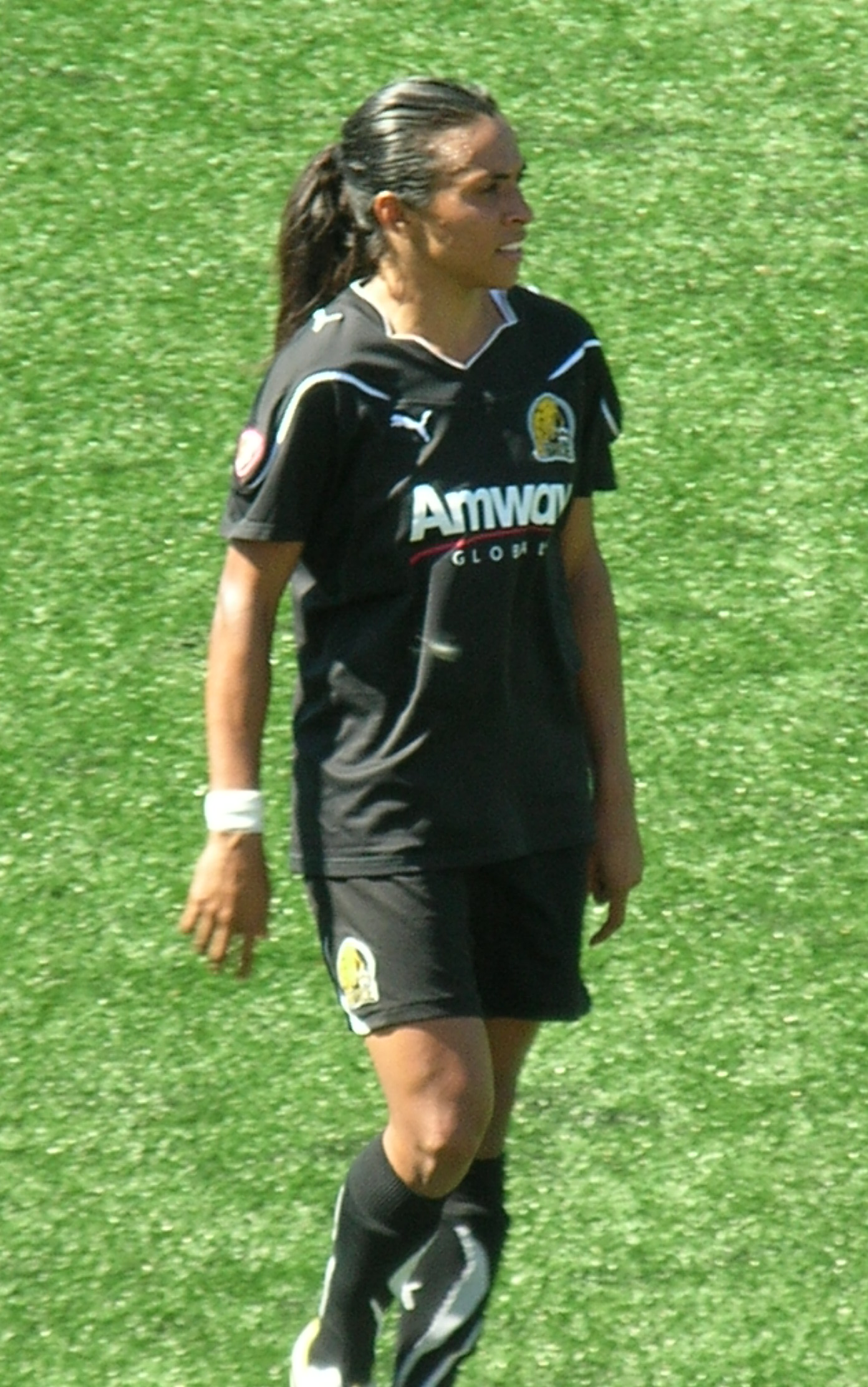 FC Gold Pride forward Marta at the 2010 WPS Championship at Pioneer Stadium in Hayward against the Philadelphia Independence. Marta scored a goal, had two assists, and earned MVP honors in the the Gold Pride's 4-0 victory.